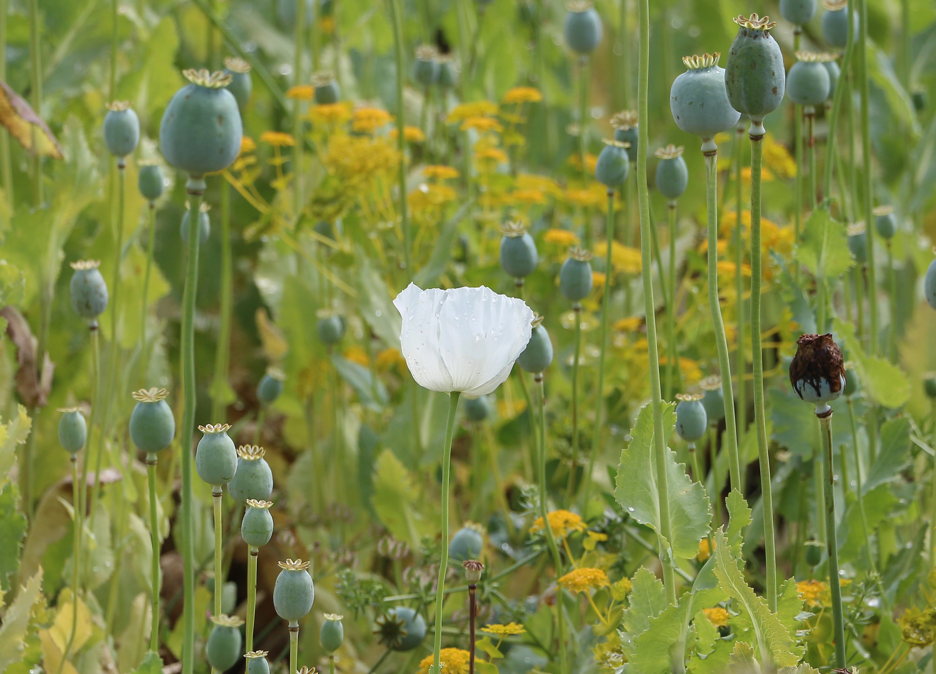 Flower of Papaver somniferum in Antalya Province, Turkey